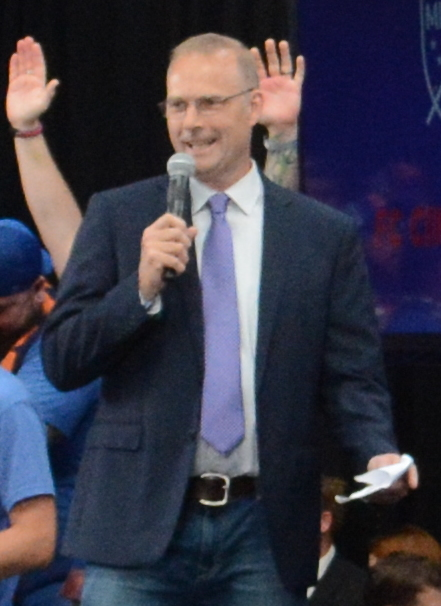 This photo was taken at an FC Cincinnati (FCC) event at Rhinegeist Brewery in Over-the-Rhine, Cincinnati, Ohio, USA on May 29, 2018. At the event, Major League Soccer commissioner Don Garber officially awarded an MLS franchise to FCC. Other speakers at the event included FCC general manager Jeff Berding, FCC owner and CEO Carl Lindner III, Cincinnati mayor John Cranley, and ESPN soccer commentators Adrian Healey and Taylor Twellman. The event was simultaneously livestreamed to a public party at Fountain Square in downtown Cincinnati.